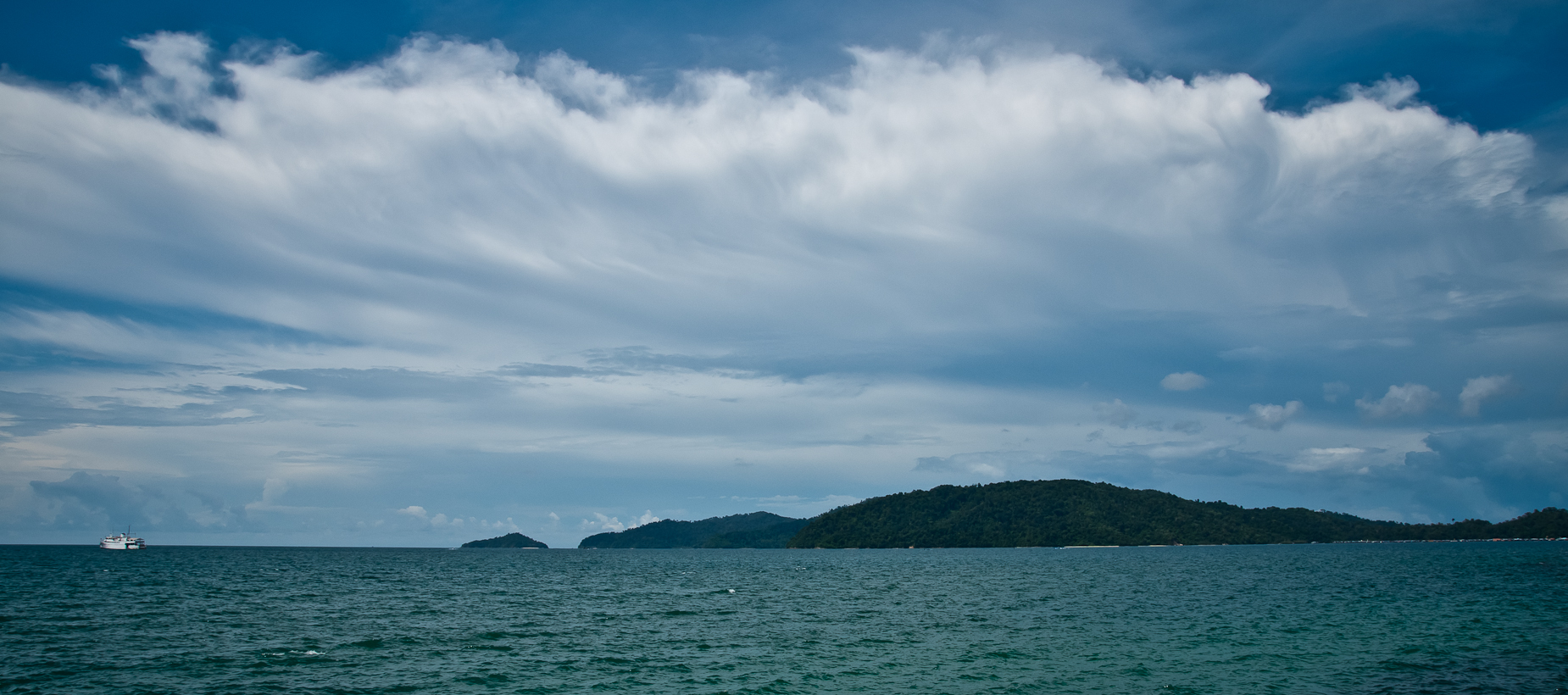 Pulau Gaya: View of the eastern tip of the island from Sutera Harbour Resort